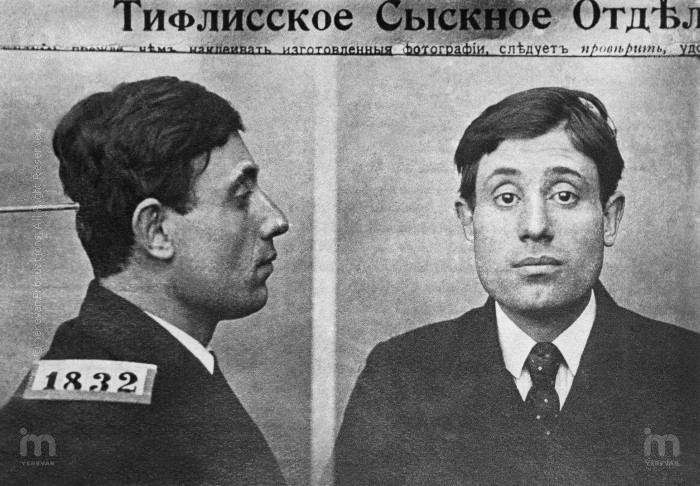 Kamo 02